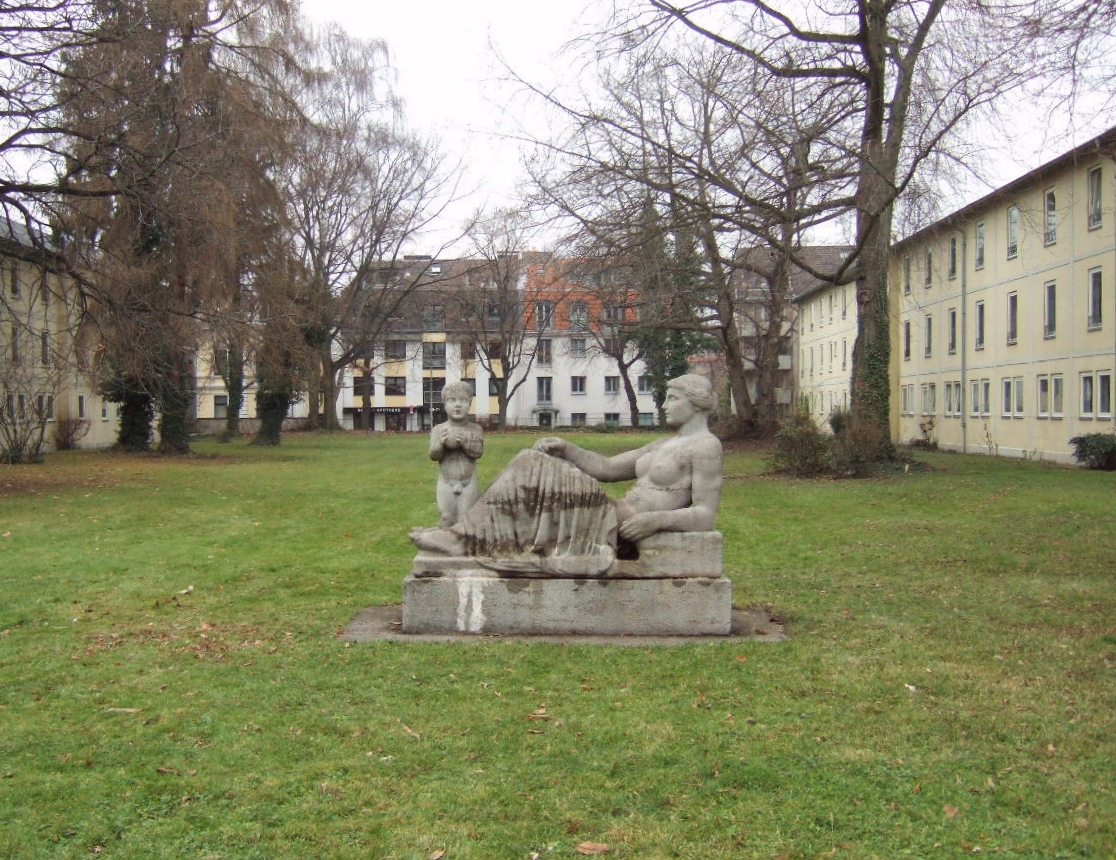 Willy Meller's concrete sculpture Reclining woman with child in Bonn-Castell